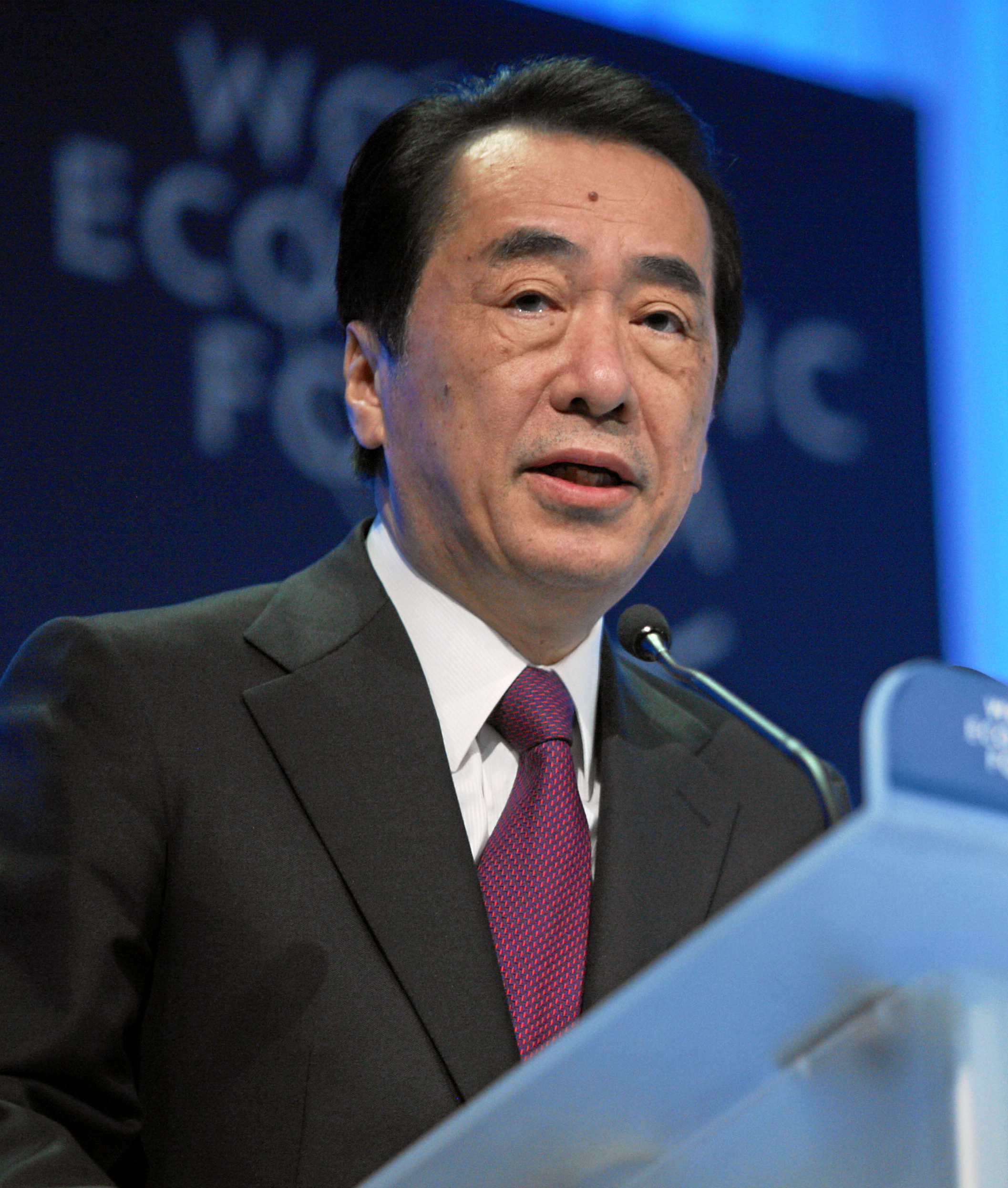 Naoto Kan, Prime Minister, talked about "Vision for Japan" at the World Economic Forum Annual Meeting in Davos Municipality, Graubünden Canton on January 29, 2011.